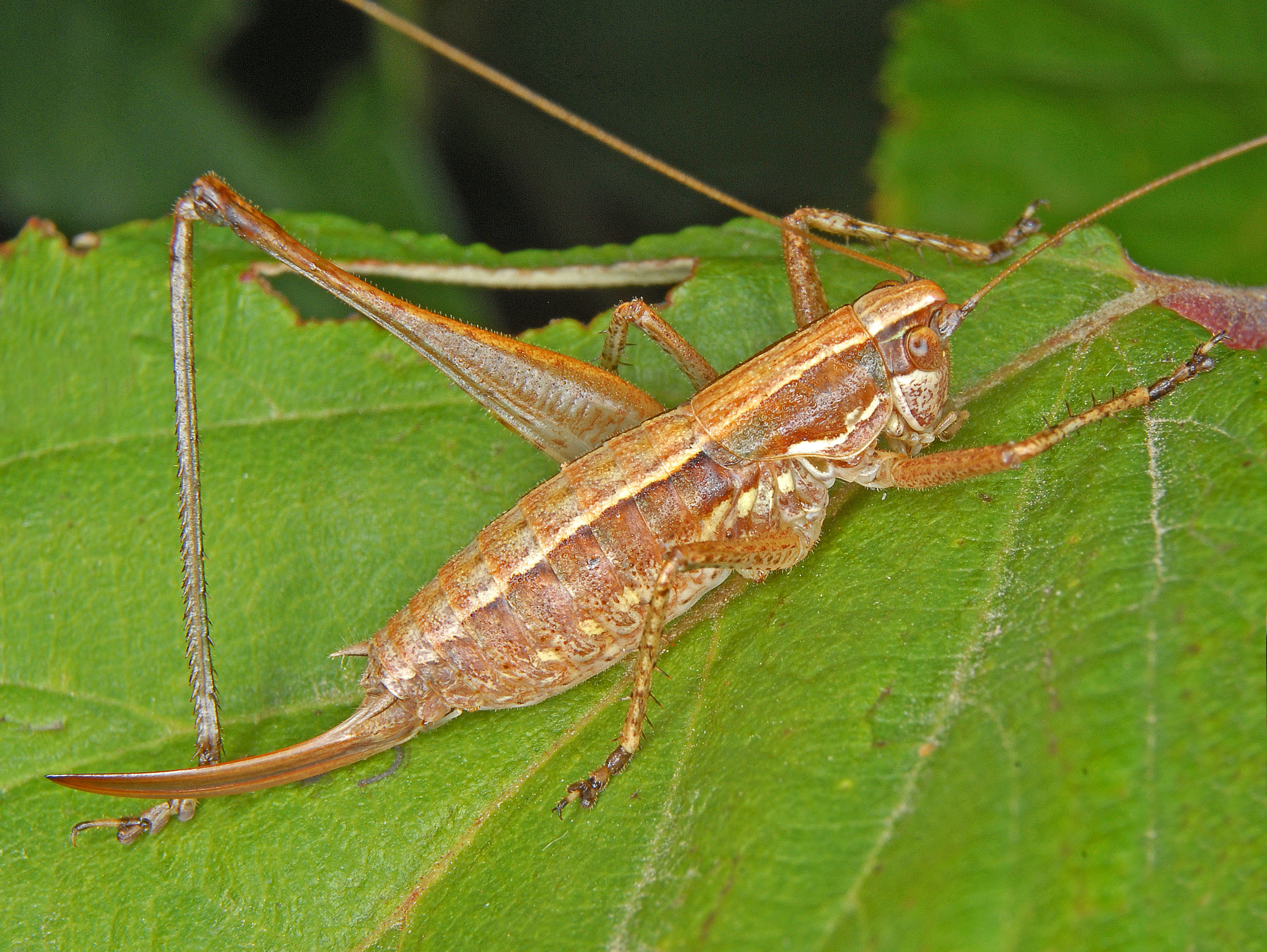 Yersinella raymondi. Female.